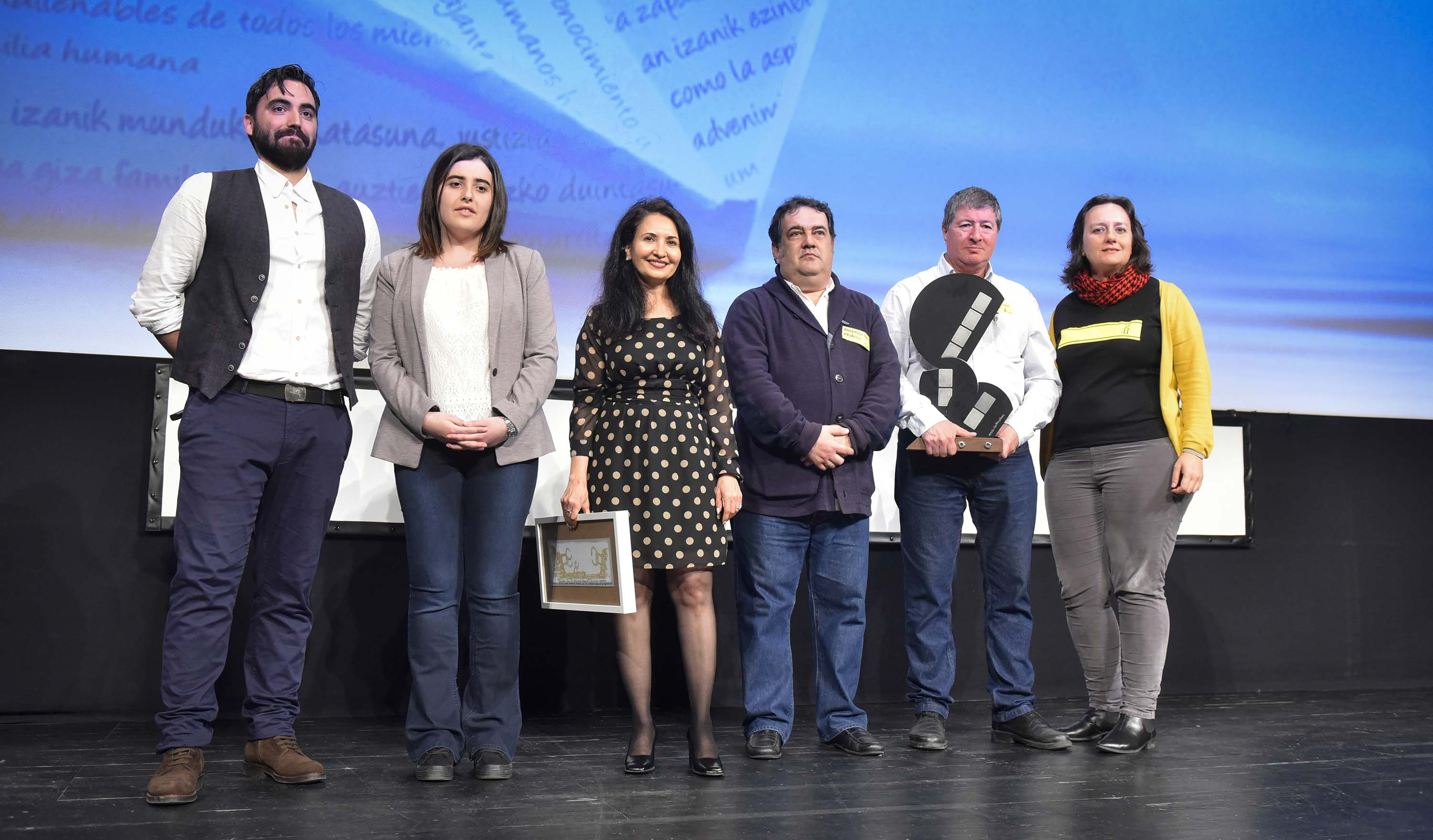 Argazkia / Fotografía: Iñigo Royo